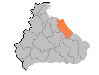 Tongchon county map